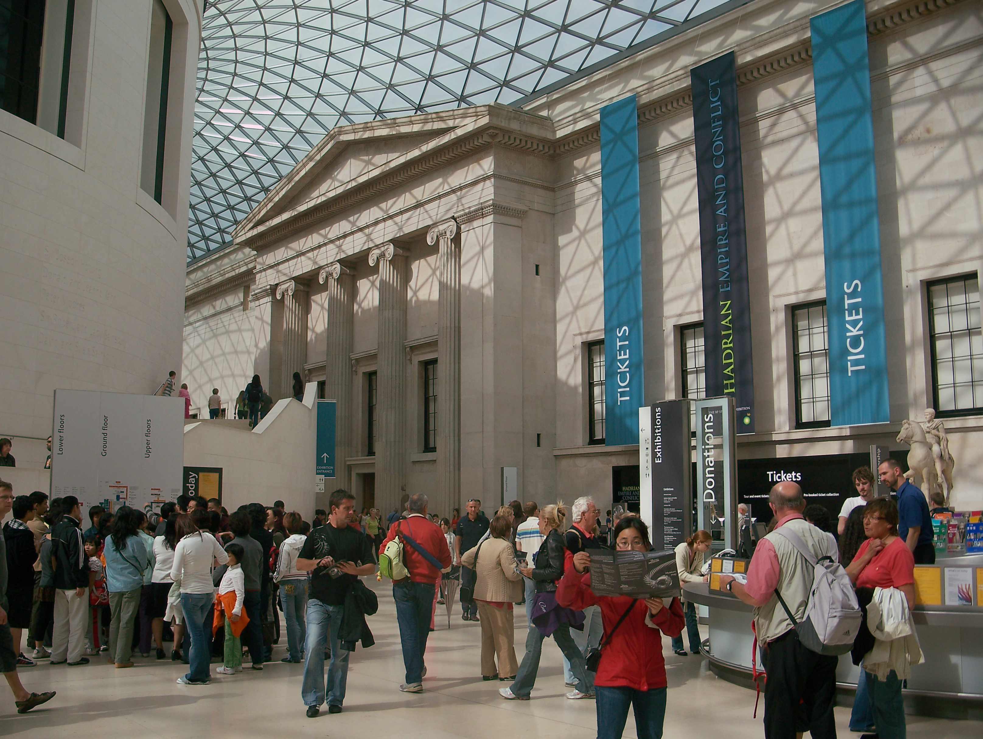 Vista_interior_del_museu_britànic,_londres